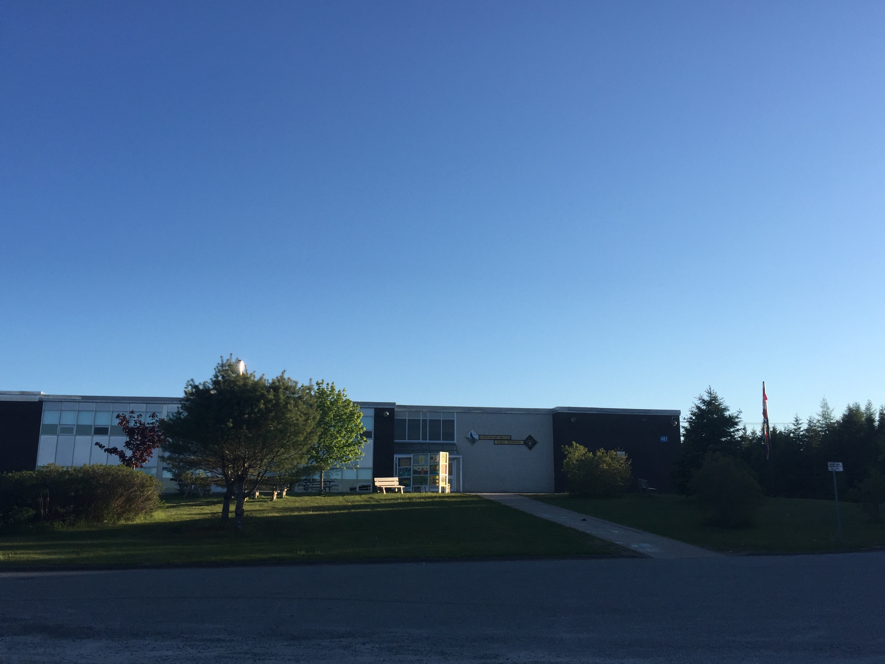 The front of Duncan MacMillan High School (DMHS) in June 2017.